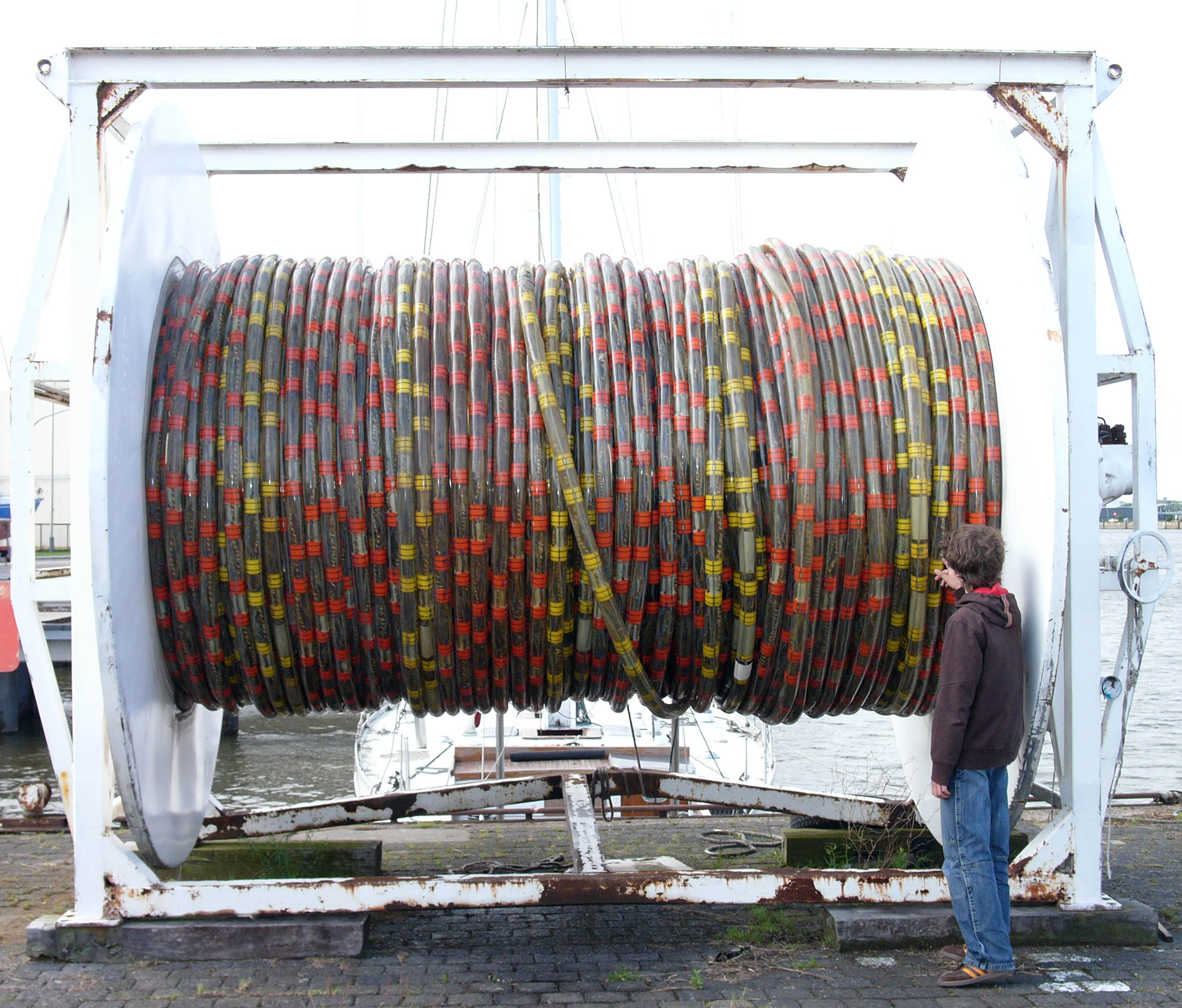 Streamer on a winch, resting in the harbour of Bremerhaven. The streamer is a hose, filled with hydrophones and oil; it is tracked behind the vessel during seismic profiling to record the reflected sound waves produced by air guns.